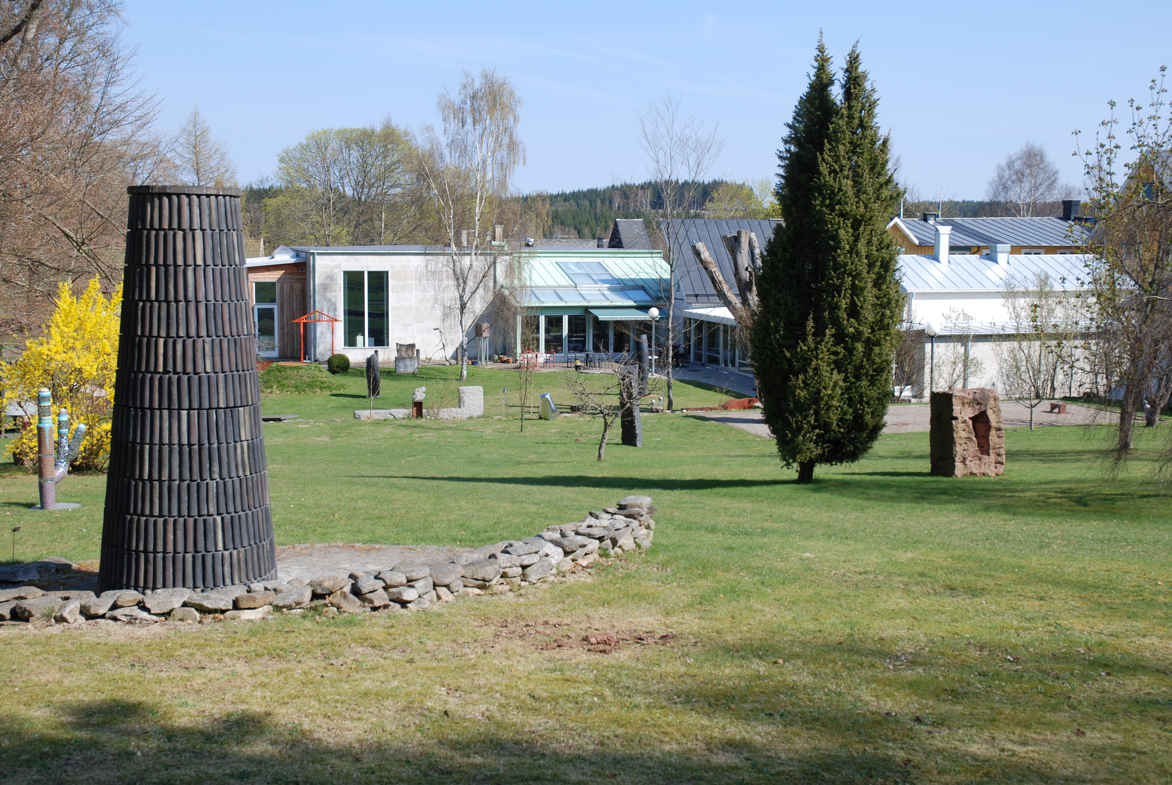 The Sculpture Garden outside Konsthallen Hishult (Hishult Art Gallery), Sweden